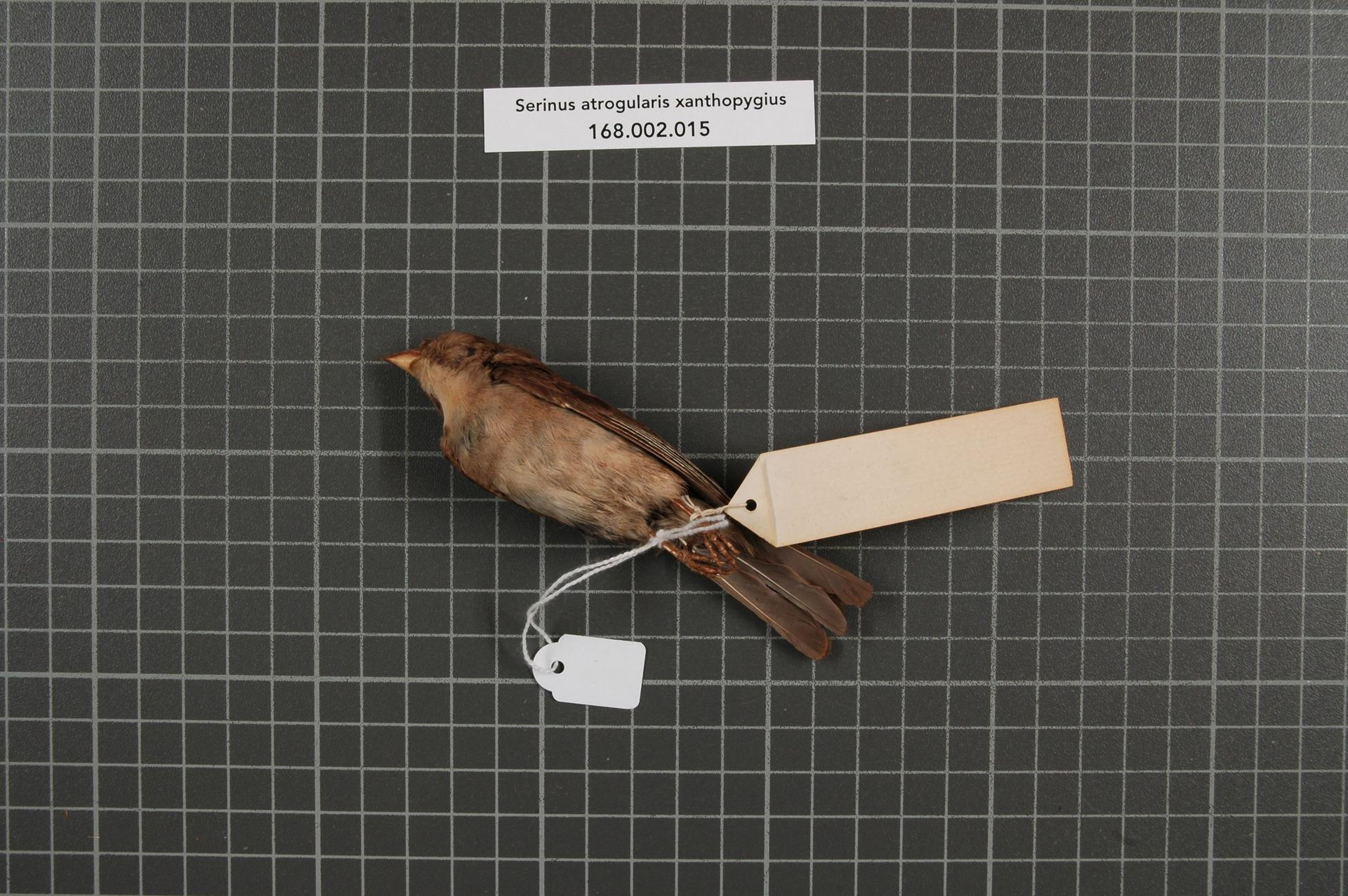 Serinus atrogularis xanthopygius Ruppell, 1840